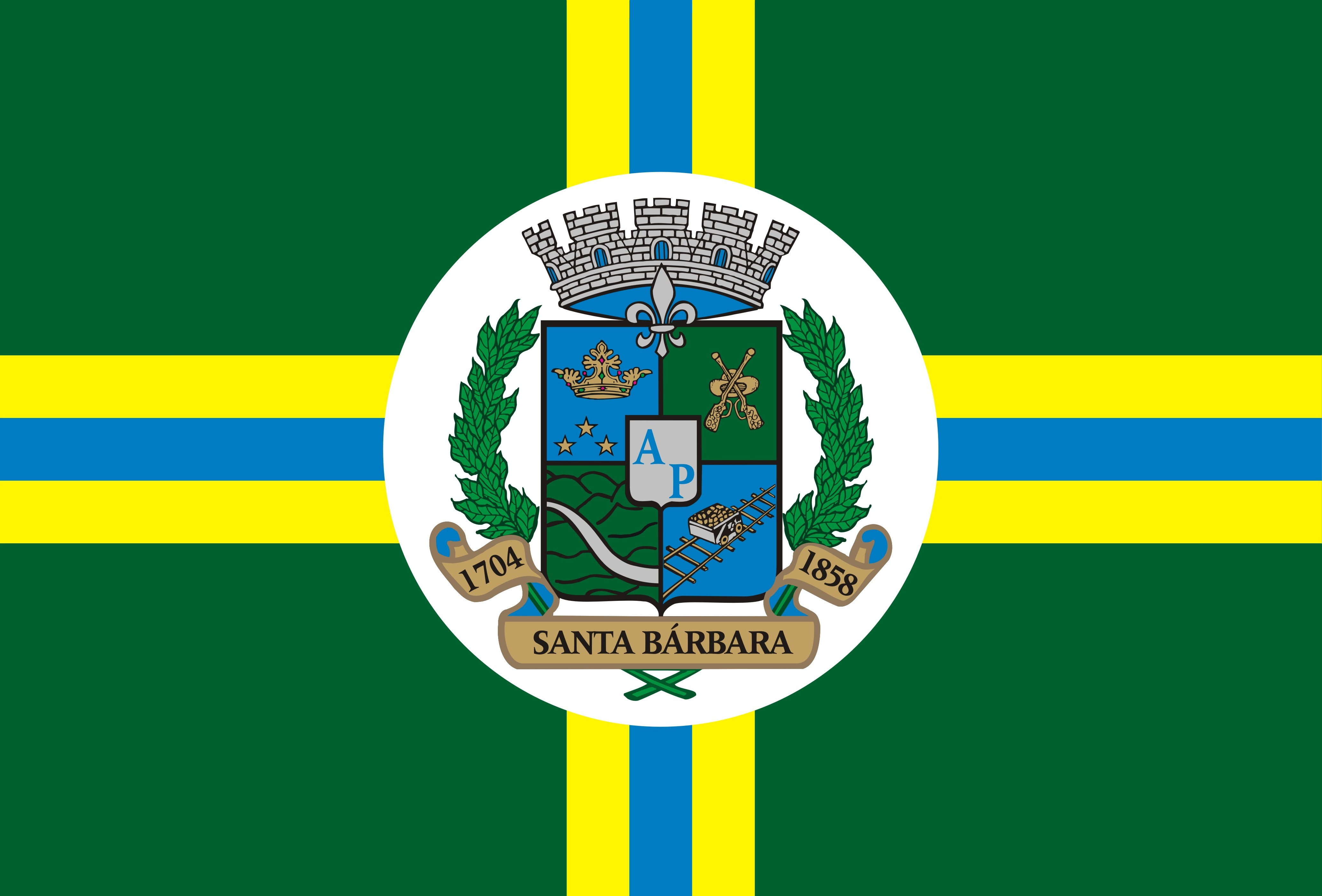 Flaf of Santa Bárbara, Minas Gerais, Brazil.